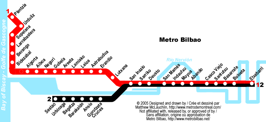 Map of Bilbao's metro